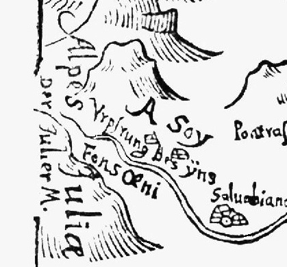 Source of the Inn river, detail of Warmund Ygl's map of Tyrol (1605)